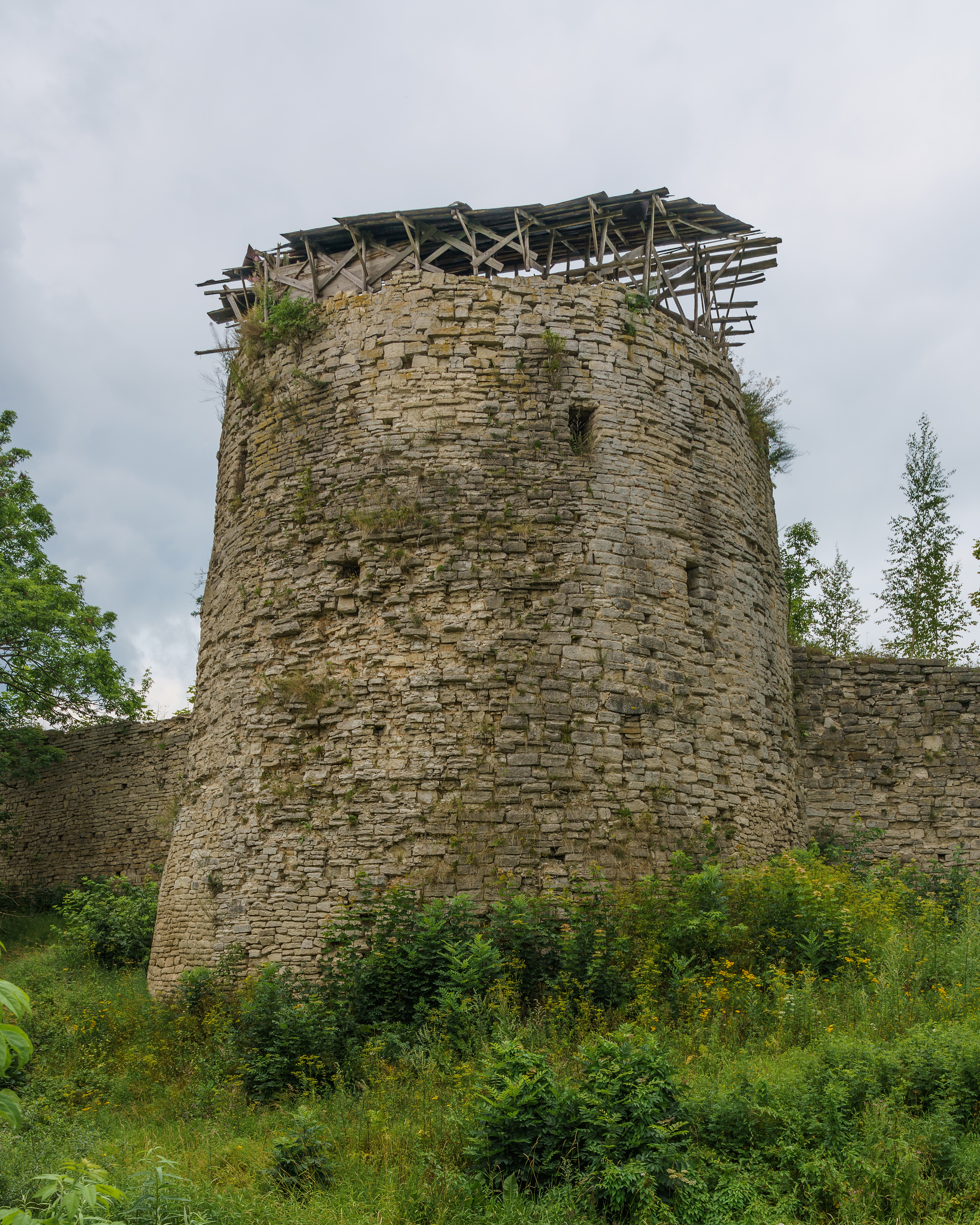 Srednyaya Tower – Fortress in Porkhov, Pskov Oblast, Russia.